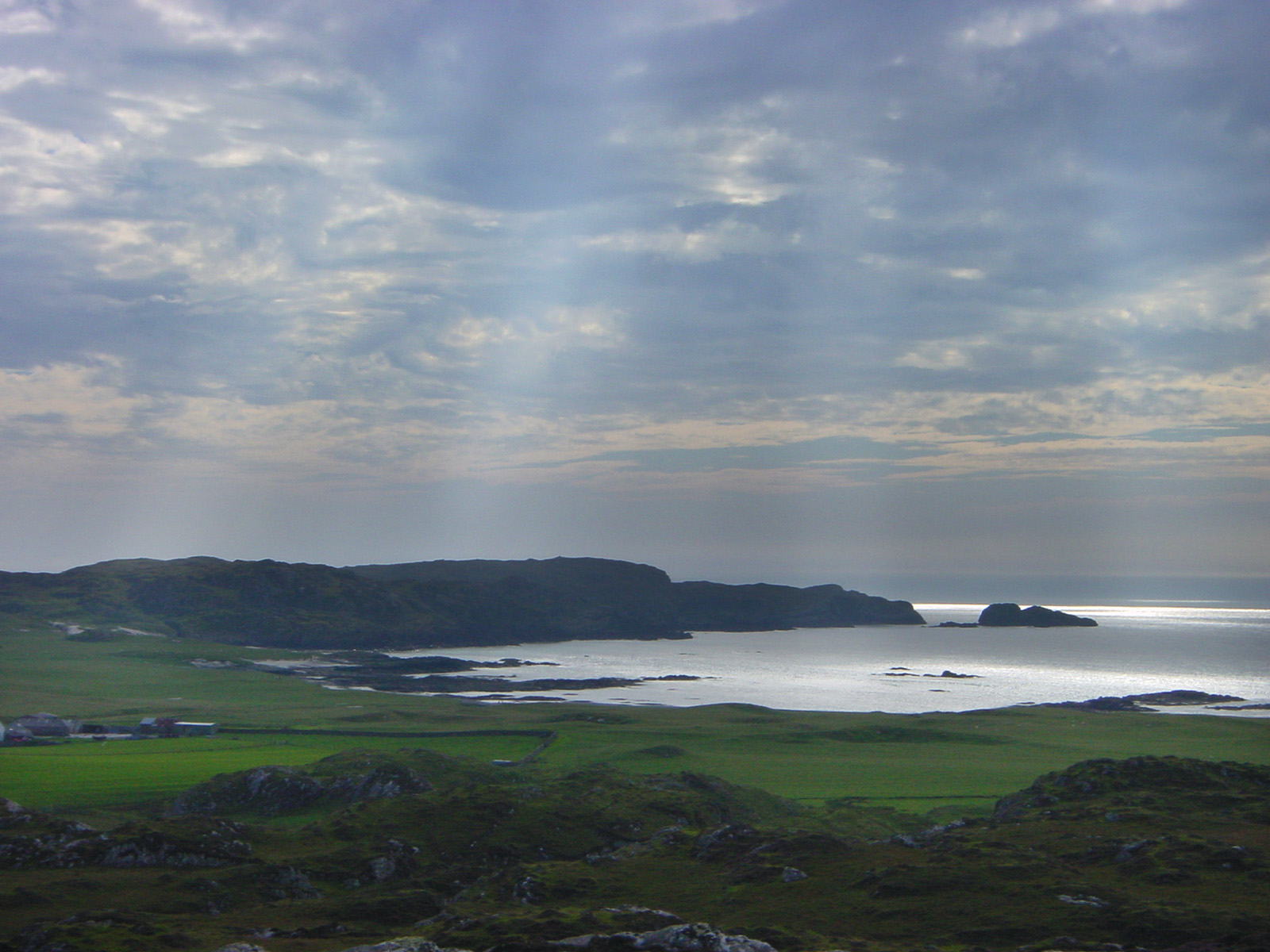 Camas Cuil an t-Saimh, Iona. Martin Burns.